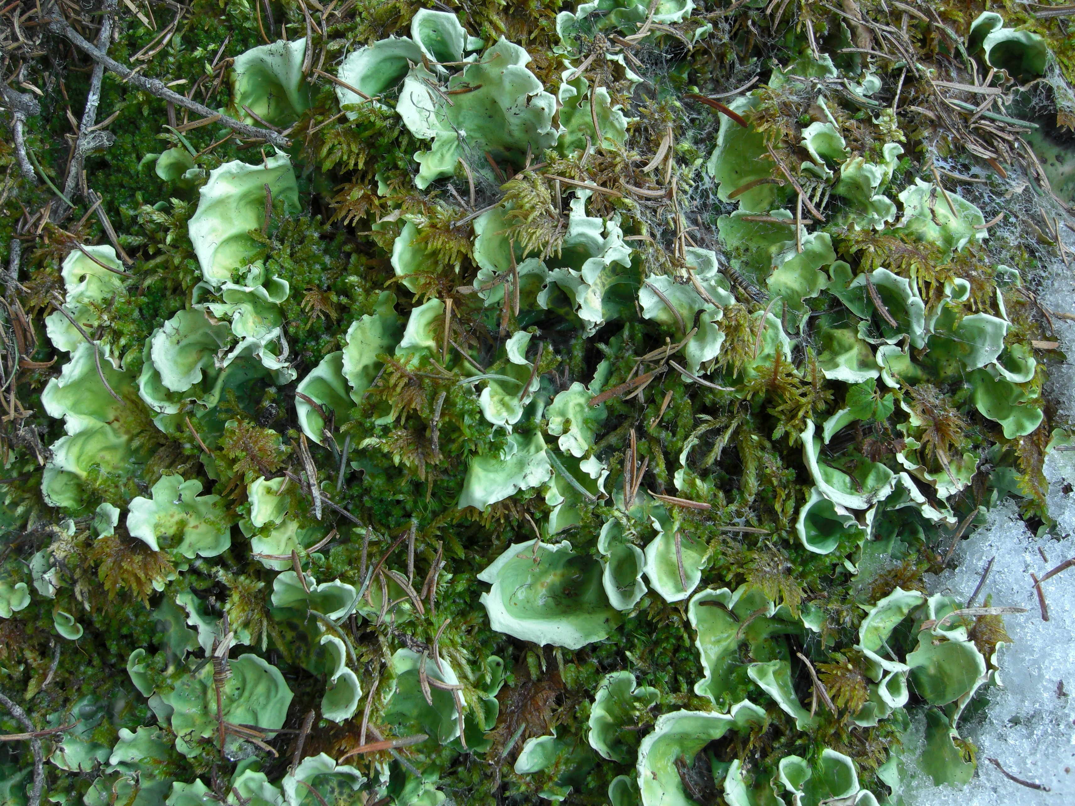 Nephroma arcticum (L.) Torss. 20090601.4 Wells Gray Provincial Park, BC